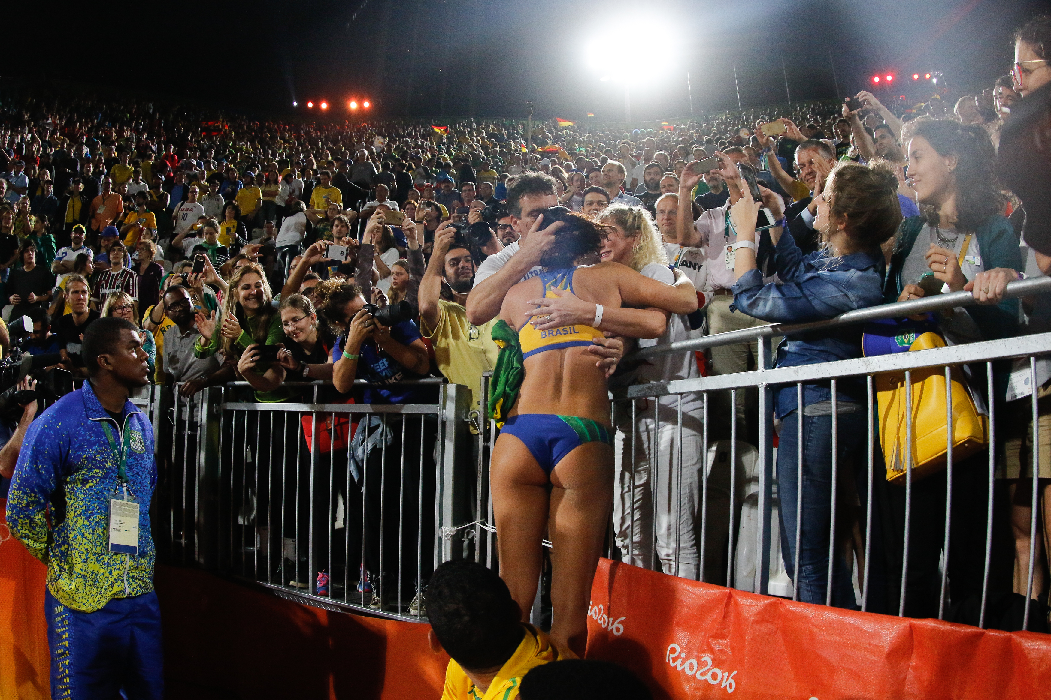 Rio de Janeiro - As alemãs Ludwig e Walkenhorst, levam ouro na final do vôlei de praia, contra as brasileiras, Ágatha e Bárbara, nos Jogos Olímpicos Rio 2016 ( Fernando Frazão/Agência Brasil)